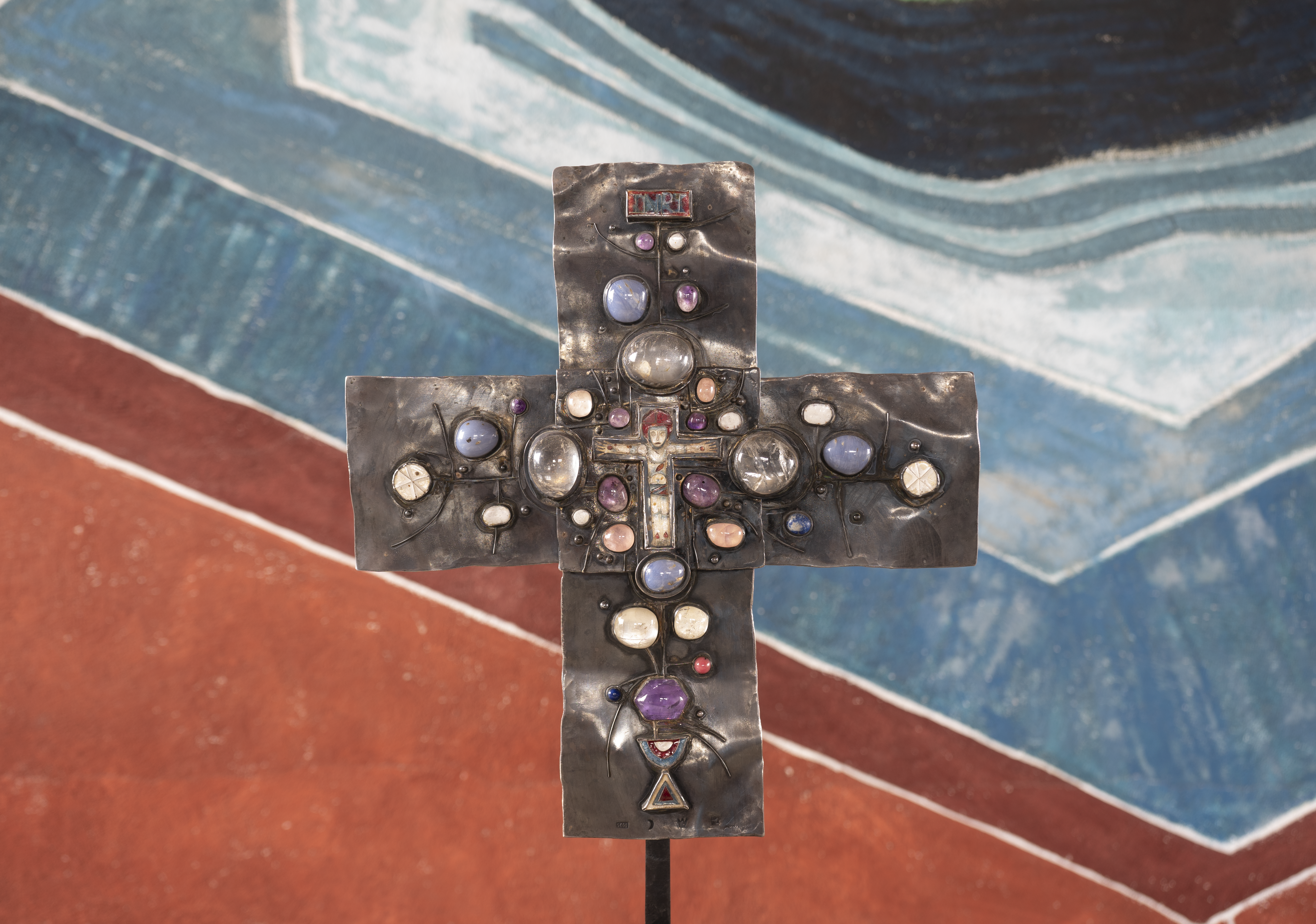 An altar cross, made by Hermann Jünger. Today, it is located on the altar in the Holy trinity church in Hof (Saale). The cross is a romanic one, with gemstones: Lapis lazuli, amethysts, chalcedony, rock crystal. The plates are made out of enamel.